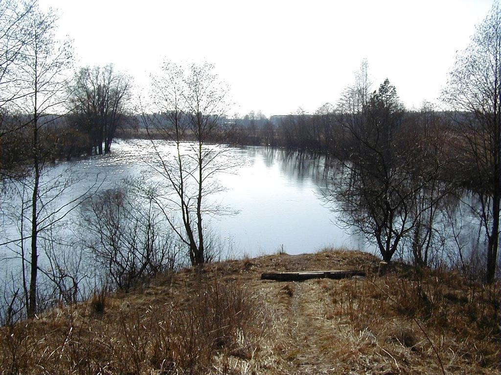 Pededze River near Litene, Latvia